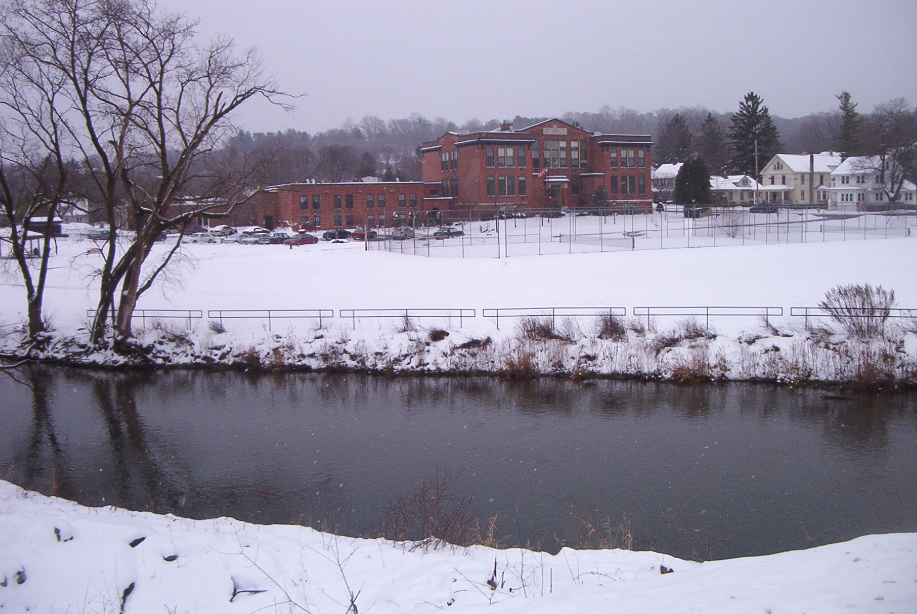 Camillus Union Free School beyond Nine Mile Creek, Camillus Village, New York